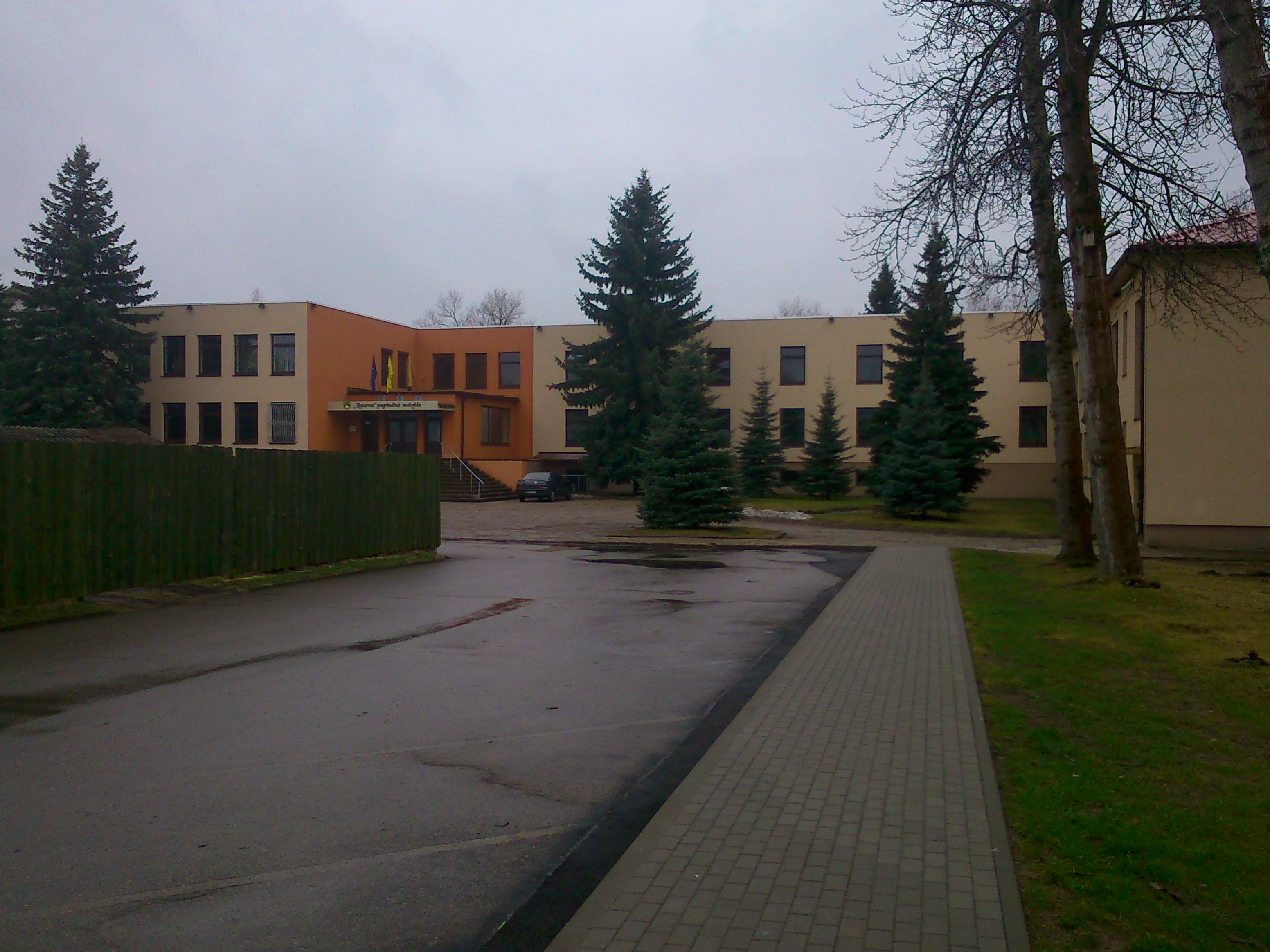 Lietavos pagrindinė mokykla